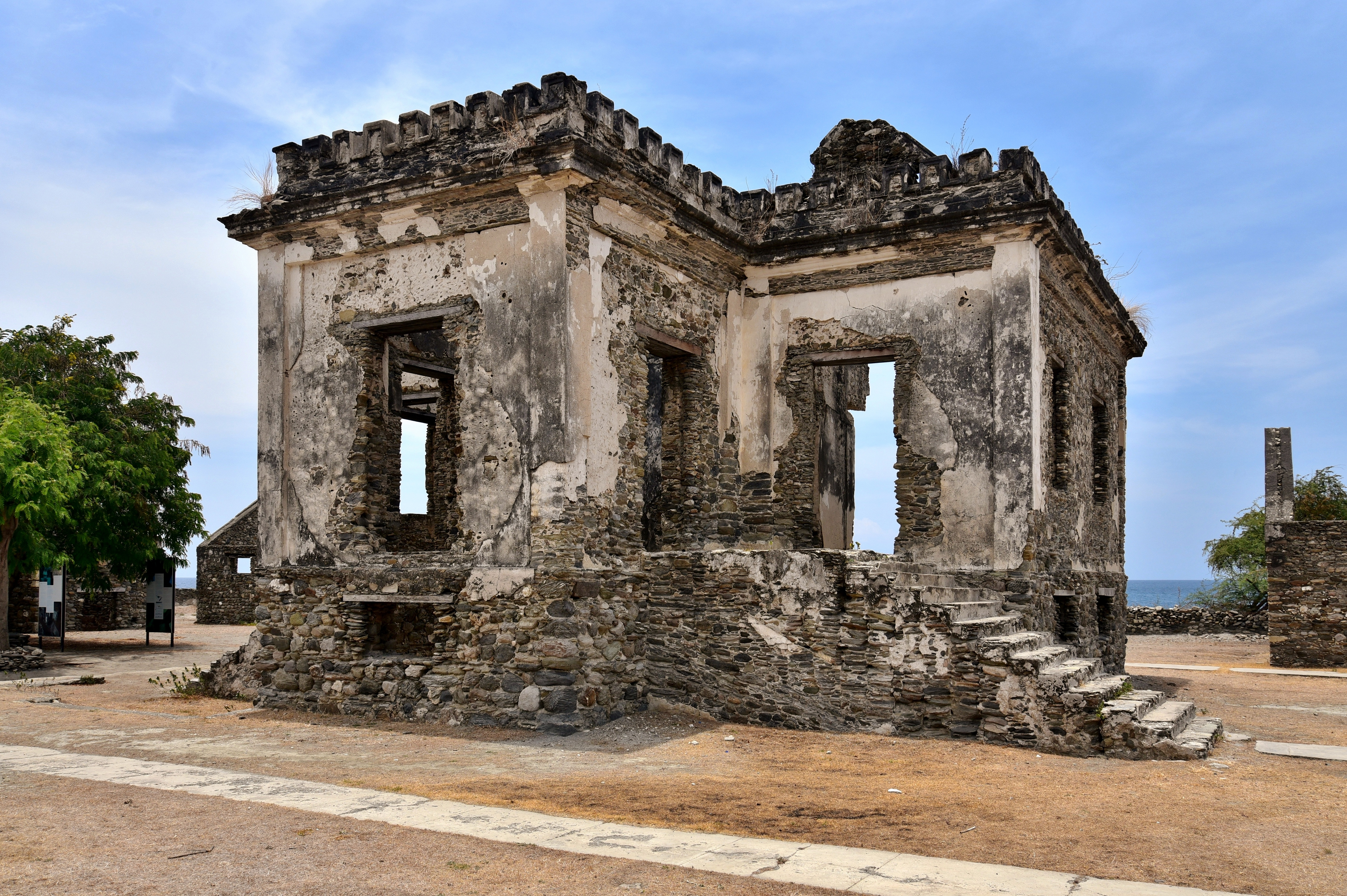 View of part of the ruins of the former Ai Pelo Prison, in the Liquiçá Municipality, East Timor